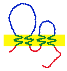 selbst erstellt - selfmade Structure of a typical claudin protein, schematic drawing. Each circle is a single amino acid, the intracellular parts are red, the extracellular parts blue and the transmembrane domains are green. The plasma membrane is drawn in yellow.